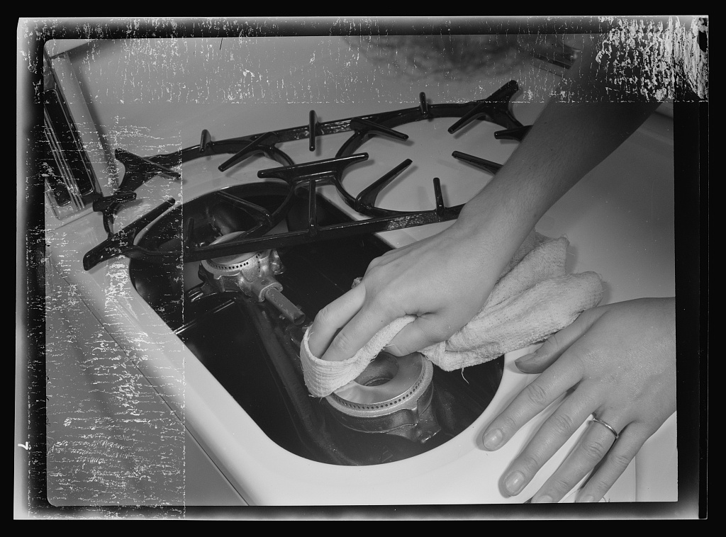 Title: How to conserve household gas. To keep burners clean, wipe them frequently with paper or a cloth. If food boils over, it may be necessary to wash the burners with soap or baking soda and water. If they need a thorough scrubbing, they should be taken from the stove and immersed in water. Do not use lye on gas stove burners